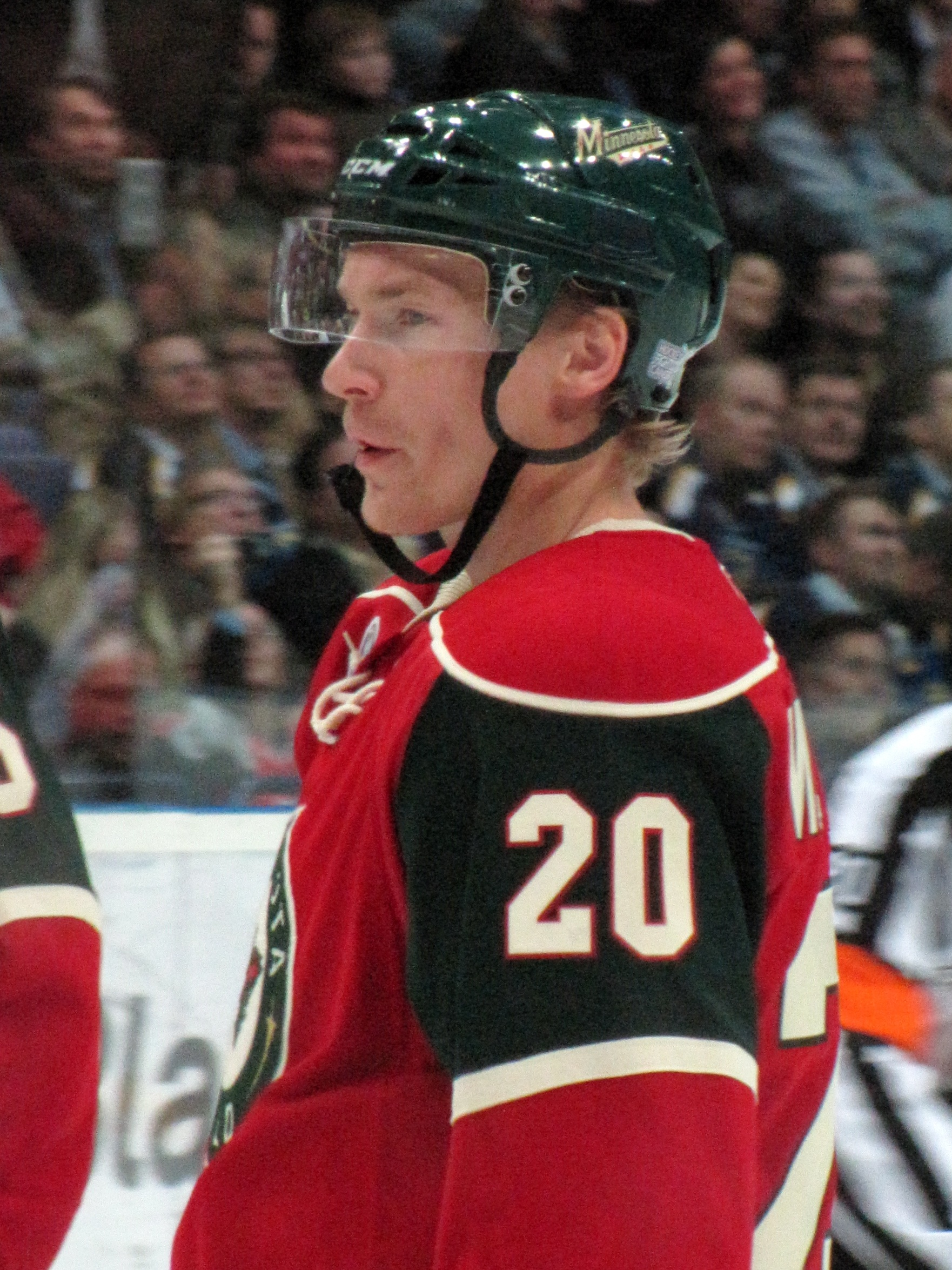 Finnish ice hockey forward Antti Miettinen playing for the Minnesota Wild in Helsinki, Finland.